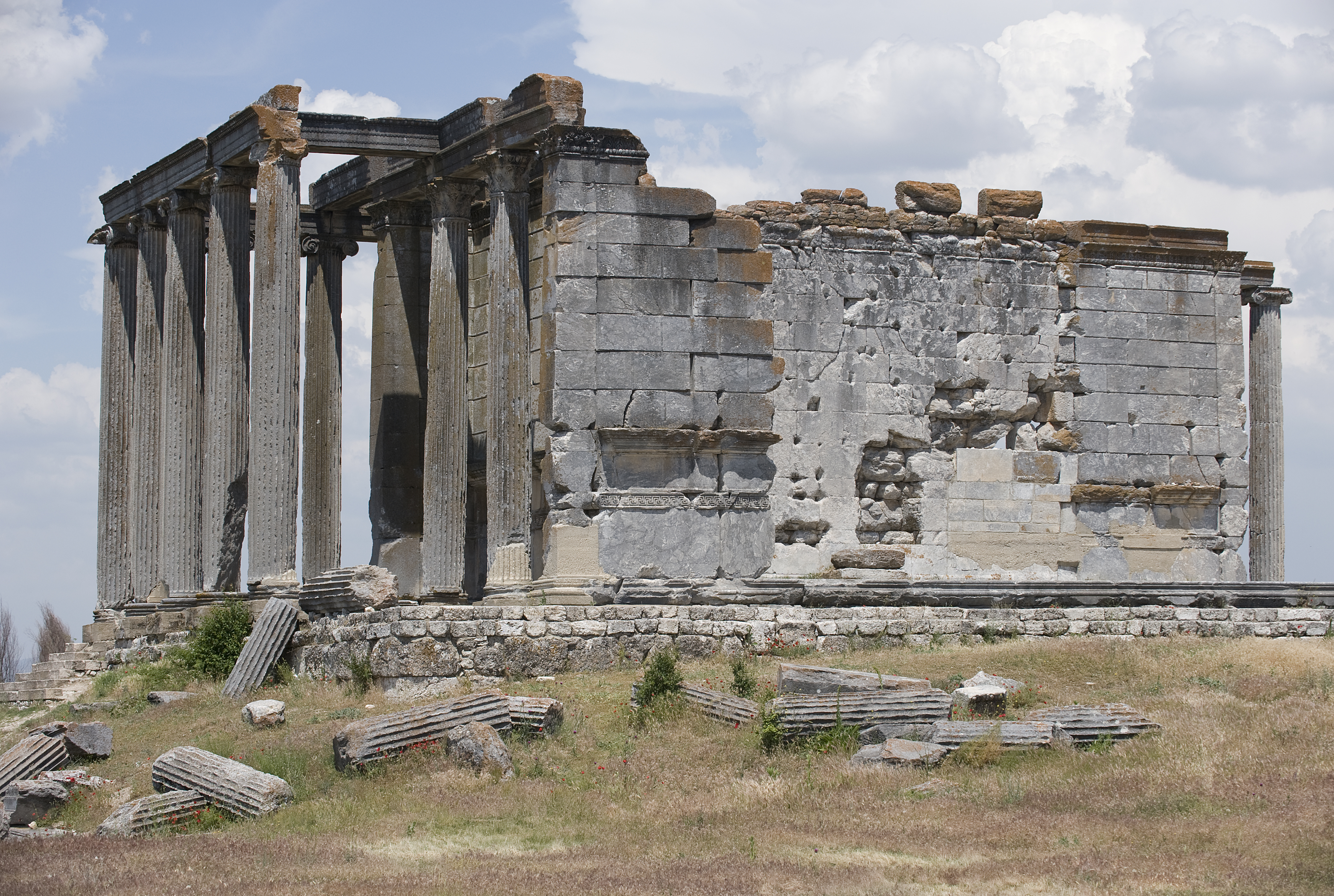 One of a series of pictures taken to show the exterior of the Zeus Temple in Azanoi.